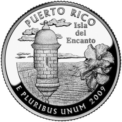 2009 Puerto Rico Quarter